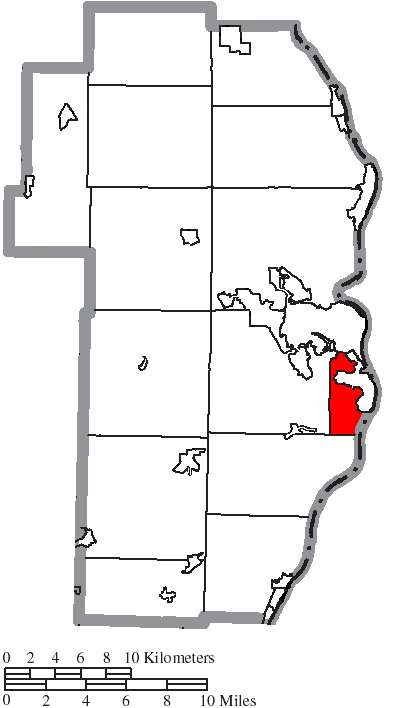 Map of the municipal and township boundaries of Jefferson County, Ohio, United States, as of the 2000 census, with the location of Steubenville Township highlighted. Township borders are shown only in unincorporated areas in order to differentiate incorporated and unincorporated areas more clearly.